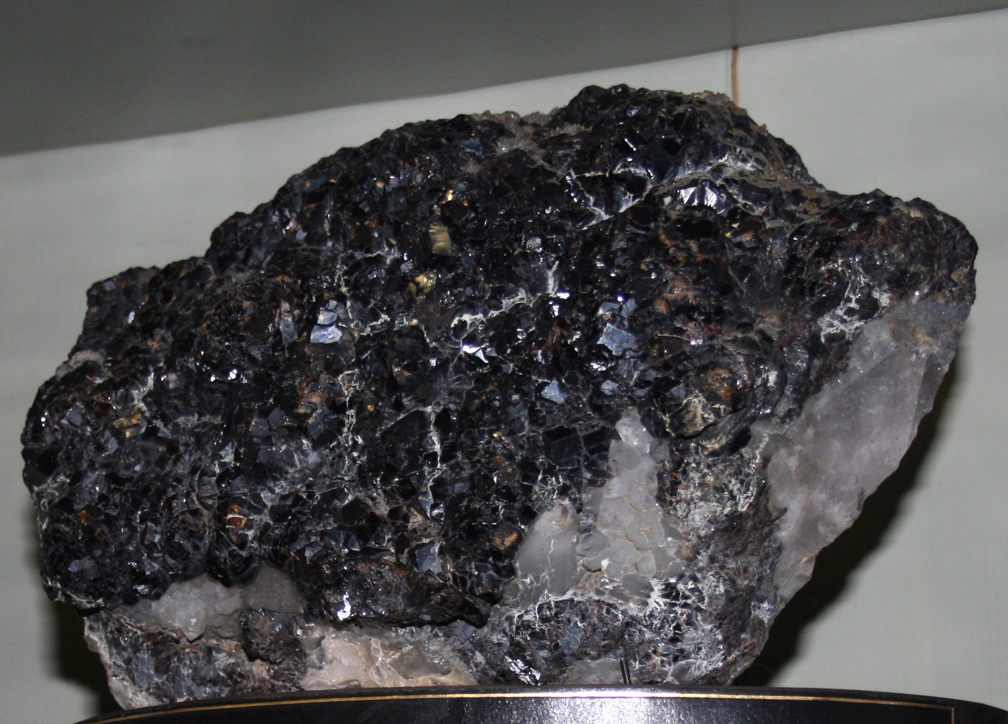 Mineral sphalerite, chemical composition: ZnS, from collection of National Museum, Prague, Czech Republic, originally from Czech Republic